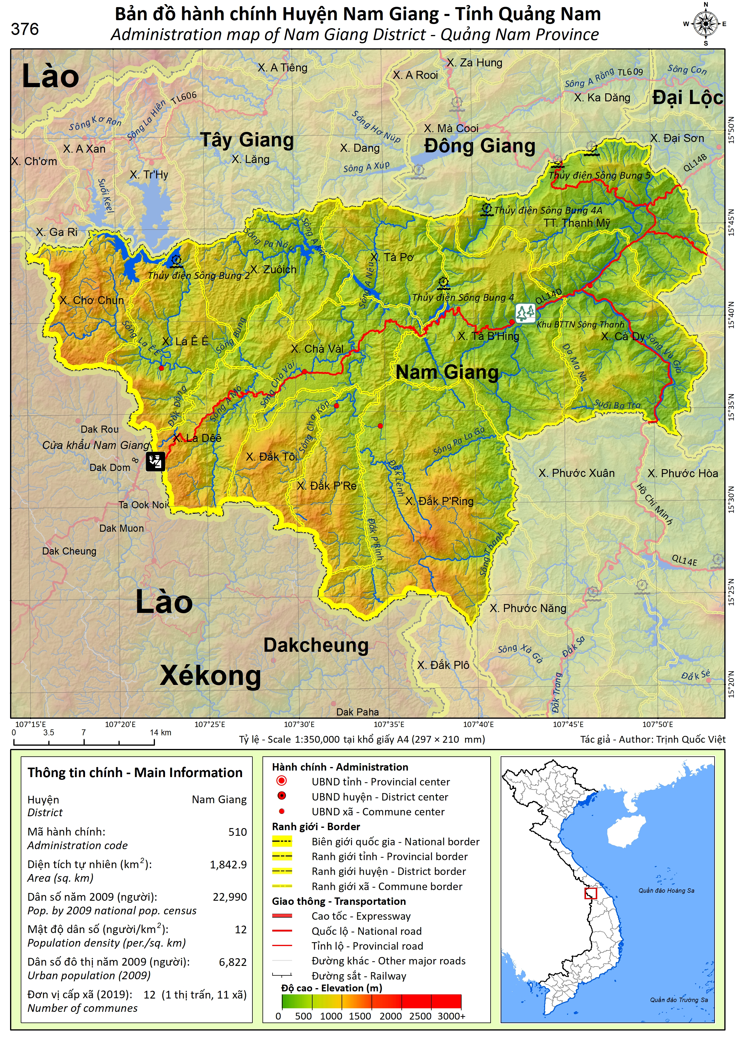 Administration map of Nam Giang District, Quangnam Province